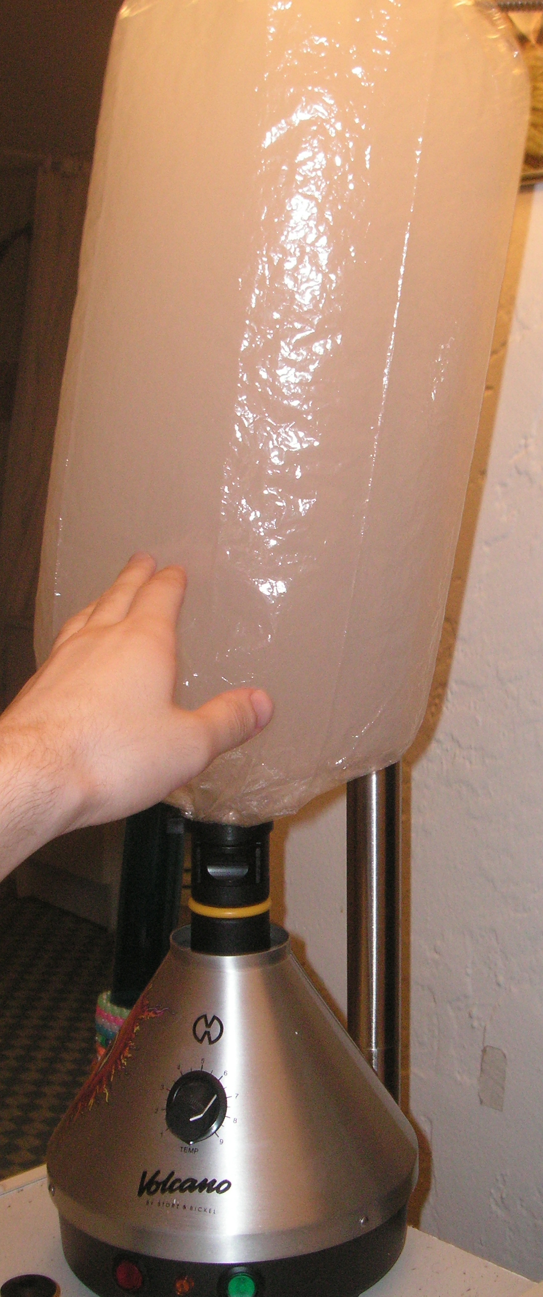 Volcano vaporizer filling up a bag of dank vapor.